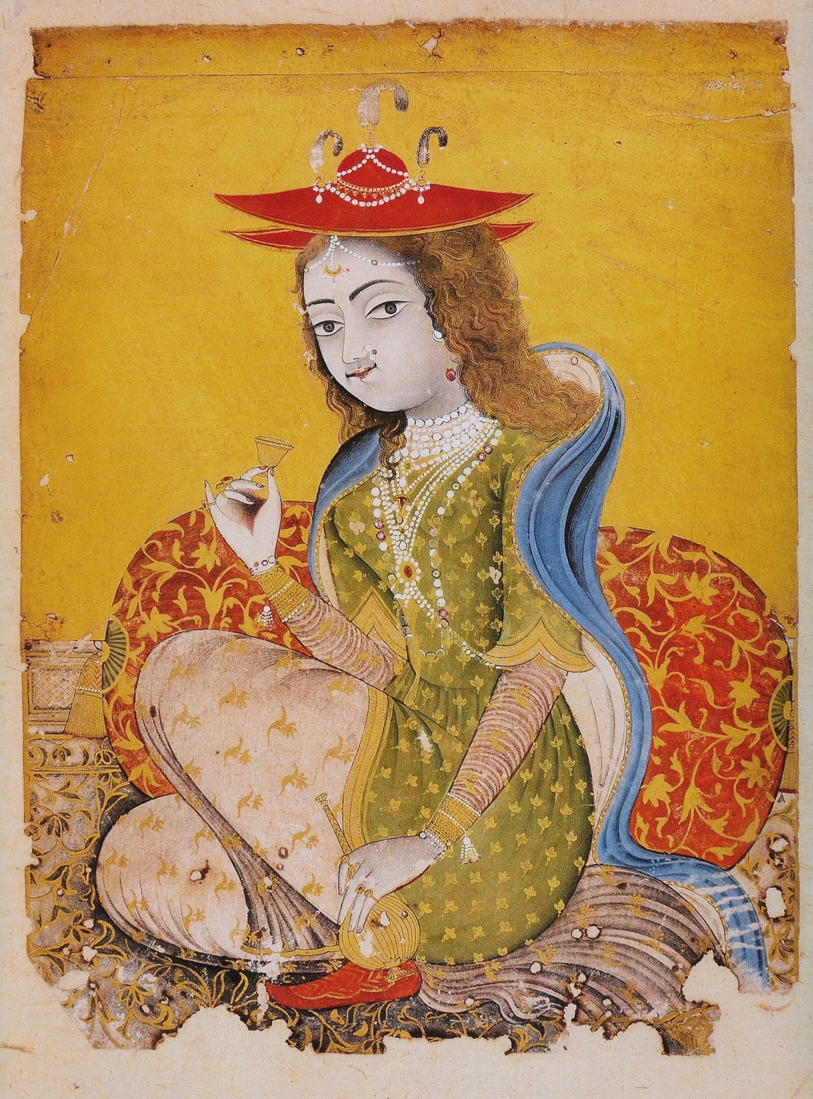 Firangi - Portrait of a European, Kota, 1750-60, National Museum New Delhi